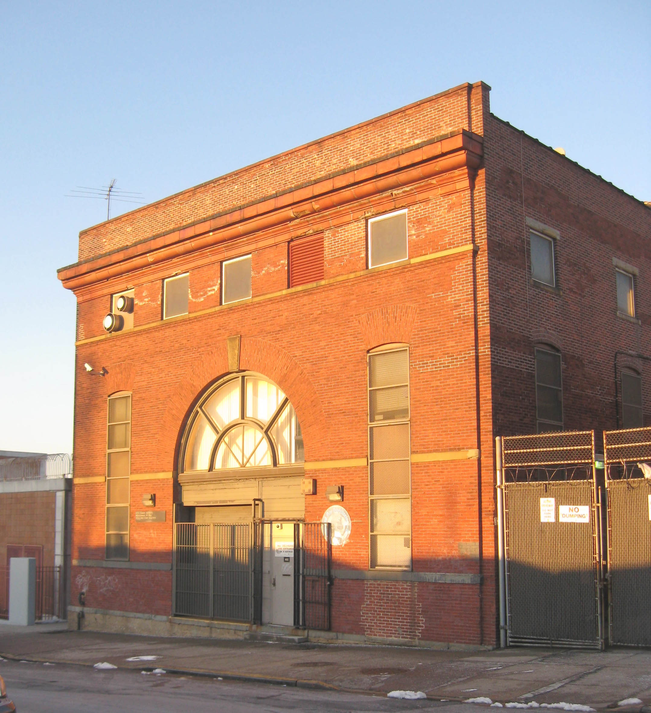 Looking north across 38th Street at former powerhouse of BMT West End Line, below 5th Avenue, late on a sunny afternoon.